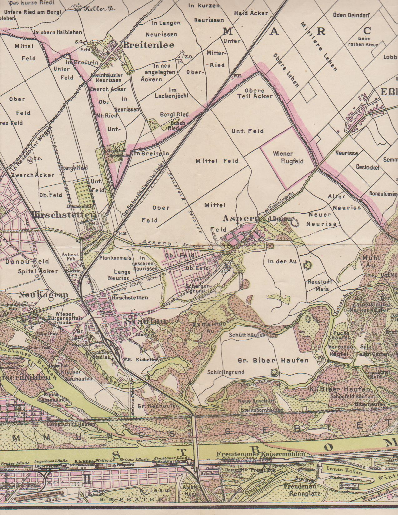 Part of a city map of Vienna of 1912, showing the villages of Aspern, Hirschstetten and Stadlau in the 21st district (Floridsdorf), the village of Breitenlee, then outside of Vienna, and part of Danube river